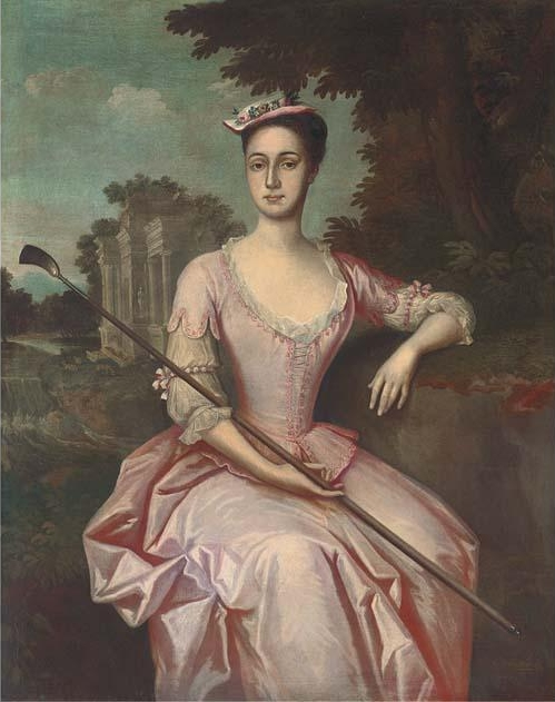 Mary Yeats, of Ashton House, Beetham, seatedthree-quarter-length, wearing a pink dress and holding a crop inher right hand, a landscape with classical buildings and a flock of sheep beyond with inscription 'Mary Keats aged 25, Daughter of John and Sarah Yeats, all buried in Beetham Church'. She died at the age of 25.